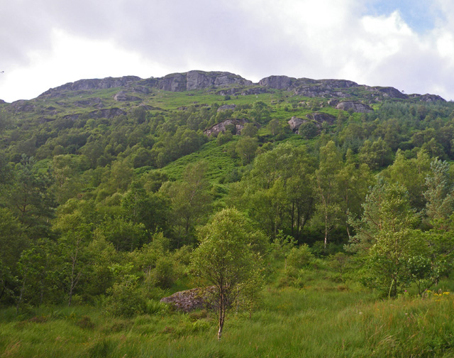 Striking outcrops crown the mixed native forest, near to Ardgartan, Argyll And Bute, Great Britain. These stony outcrops above are actually not the mountain ridge, but rather are massive intermediate features not even near the summit. The attractive forest on the lower slopes is a native deciduous woodland. The entire scene is viewed from a location near the A83 Road.